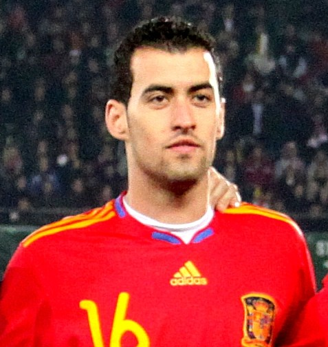 Spain national football team at 2009-11-18 in Vienna (Ernst-Happel-Stadion) vs. Austria national football team (5:1) → For the names of the players move the mouse over the photo.